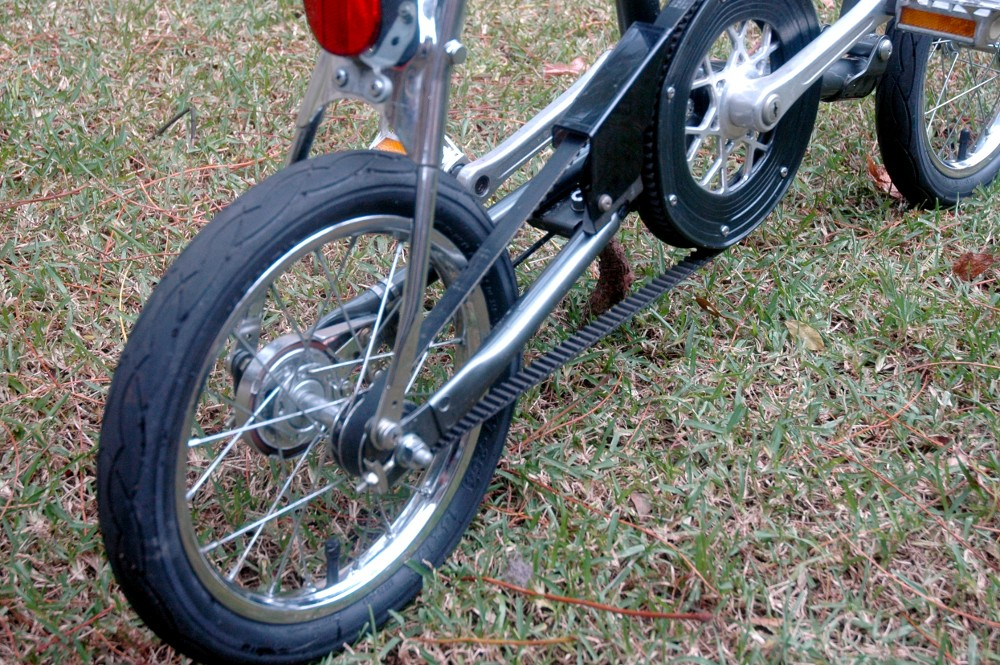 1980s Bridgestone Picnica belt drive folding bicycle overall view of transmission